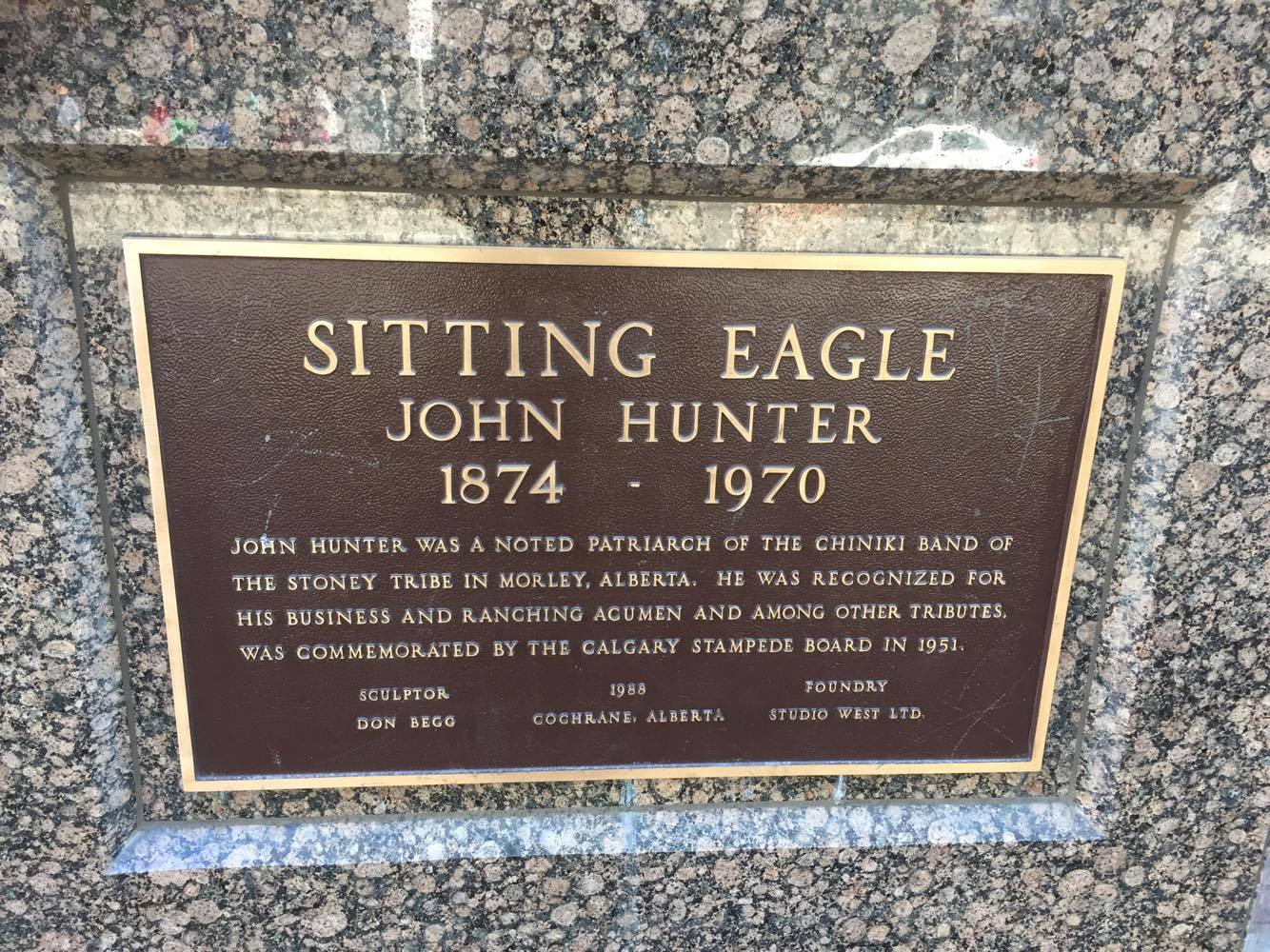 This is a plaque at the base of the statue of Chief Sitting Eagle, in front of the Encor tower in downtown Calgary, Alberta, Canada.